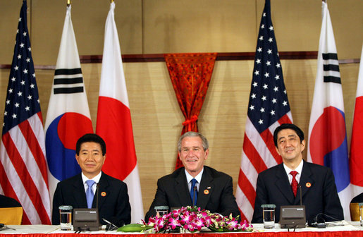 U.S. President George W. Bush sits with President Roh Moo-Hyun, of the Republic of Korea, left, and Japan's Prime Minister Shinzo Abe during a trilateral discussion Saturday, Nov. 18, 2006, at the Sheraton Hanoi hotel in Hanoi, where they are participating in the Asia Pacific Economic Cooperation summit. White House photo by Eric Draper. (Details)